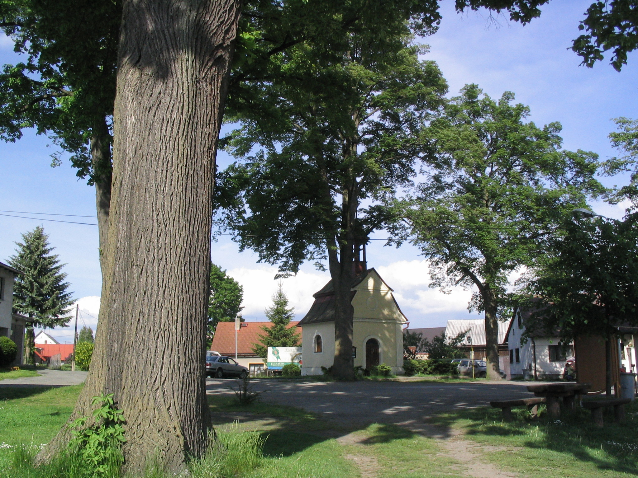 Village of Strážiště, Czech Republic